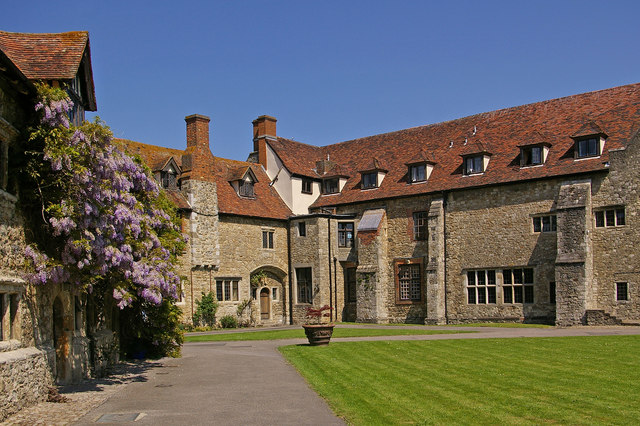 Aylesford Priory Otherwise known as "The Friars", this is a Carmelite house, originally founded in 1242. It passed from the Carmelites at the Reformation in 1538, but was restored in 1949. As well as being a Carmelite community, it also serves as a retreat house and conference centre.